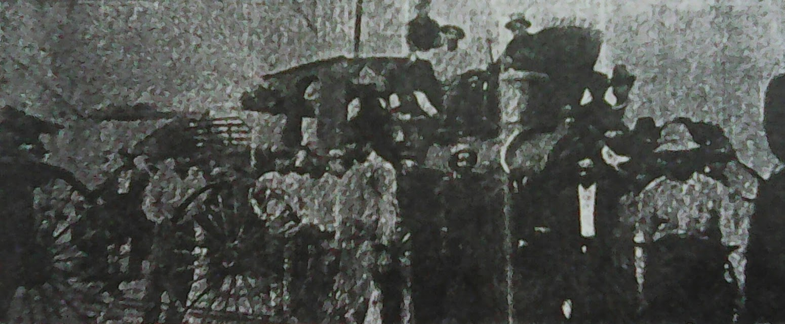 A locomotive of the railway of Vigia Chico, abandoned as useless is in line to repair by orders of General Arturo Garcilazo (1914-1915)